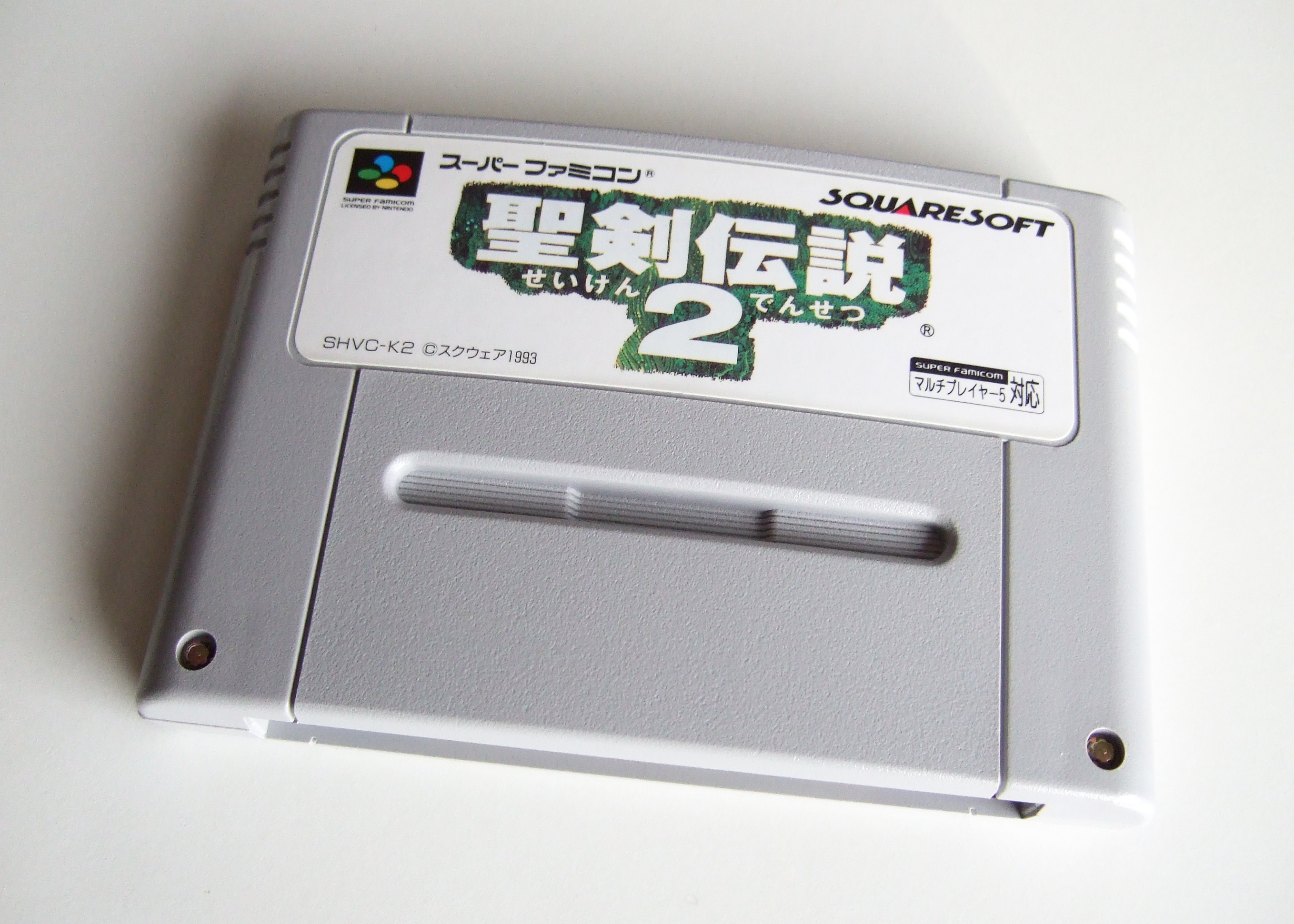 The video game cart for the SNES game "Seiken Densetsu 2" (a.k.a. "Secret of Mana").